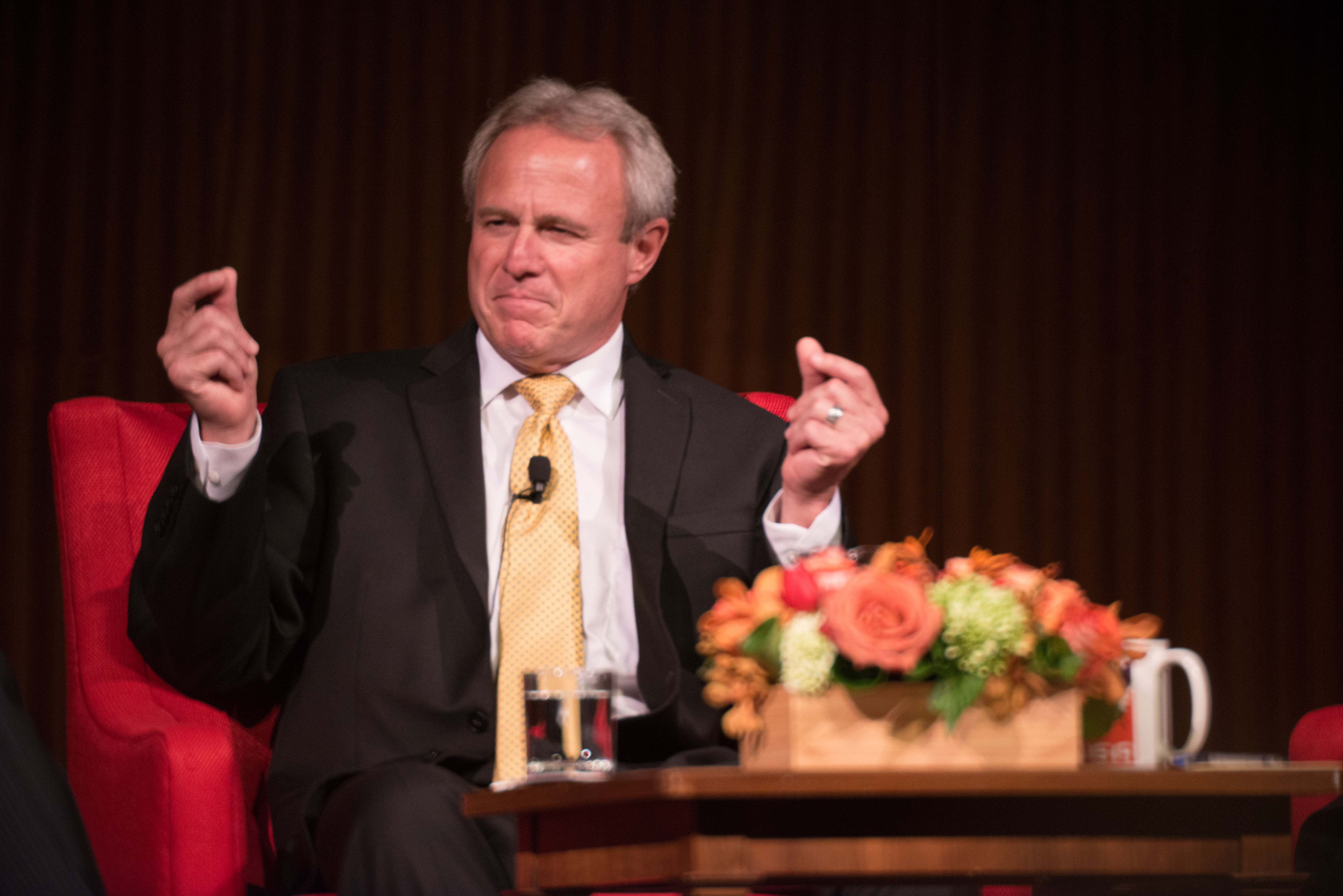 Michael Morton, author of "Getting Life," and Barry Scheck, co-founder and co-director of the Innocence Project, share Morton's remarkable story of tragedy, injustice, and forgiveness with Friends members at the LBJ Presidential Library on September 30, 2014. Morton was exonerated on October 4, 2011 after spending nearly 25 years in a Williamson County prison after being wrongly convicted of the murder of his wife. Photo by Lauren Gerson.